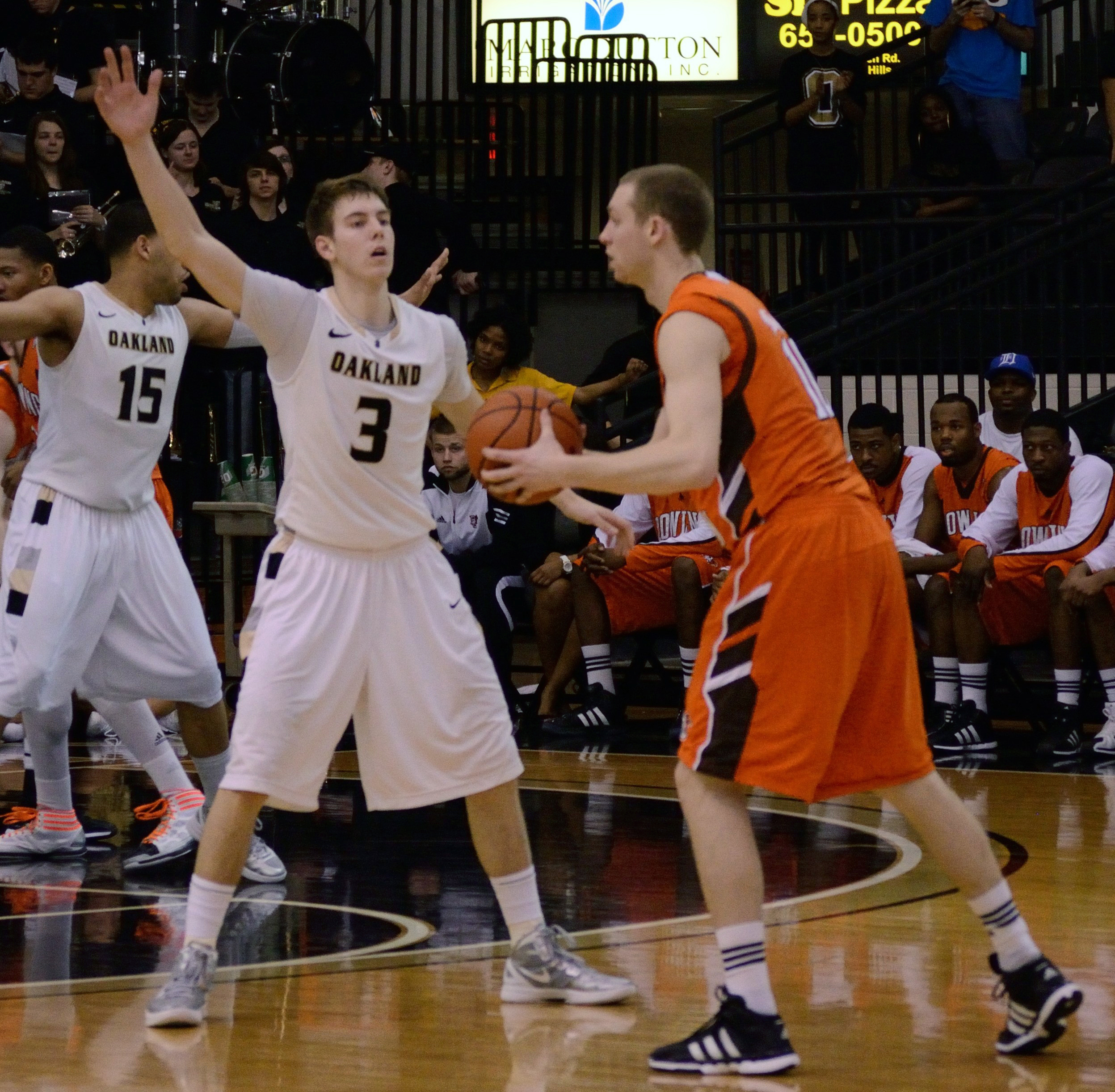 Travis Bader, Oakland University guard, playing defense in a 2012 game against Bowling Green State University